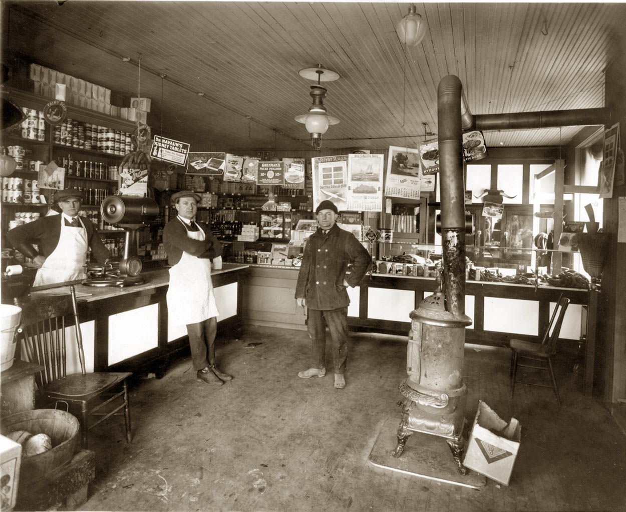 Smykowski Bros. Grocery, 1922, located 31st and Herbert Street, Detroit. This is a reduced-resolution photo scanned from original. On the left is Leo Smykowski in the center is Stefan Smykowski, the person on the right is unknown. The Smykowskis, Polish immigrants, ran three stores in Detroit, the last one closed in the early 1970s. Another photo of Leo can be seen at Excelsior Motor Manufacturing & Supply Company. His son, Marion, can be seen in a photo loading airmail.